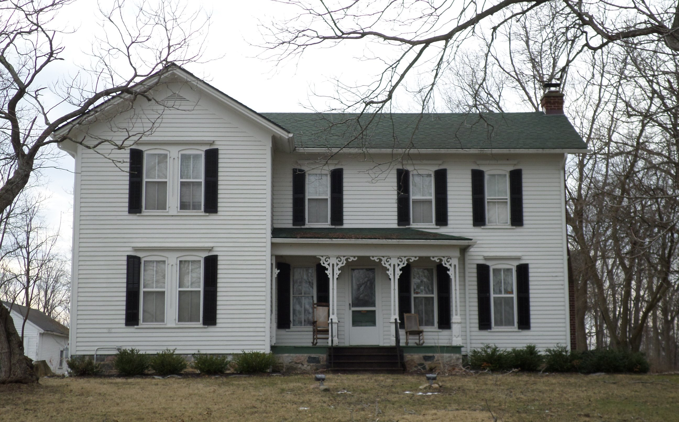 A house at the Gordon Hitt Farmstead, located at 4561 N Lake Rd, Clarklake, MI. The farm is listed on the National Register of Historic Places.